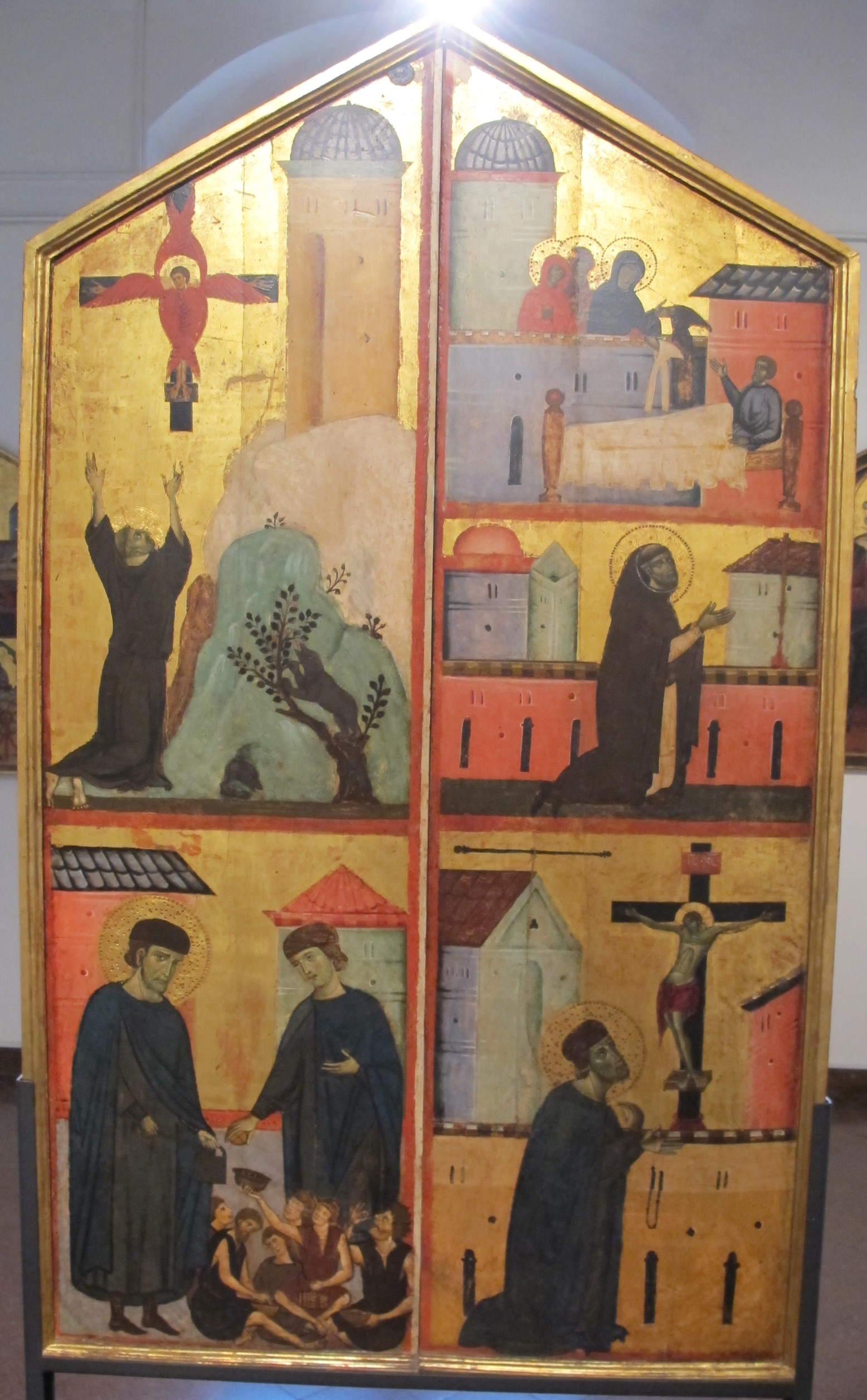 Altarpiece in the National Pinacotheque, Siena